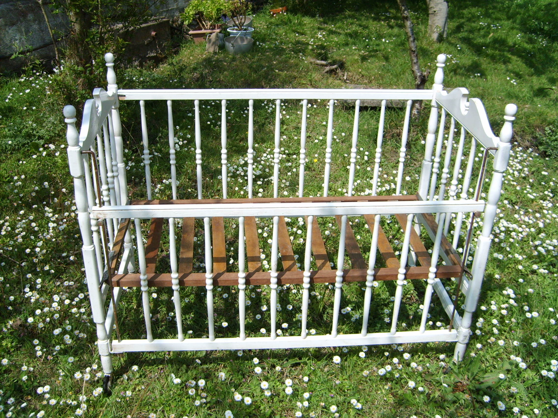 A cradle.